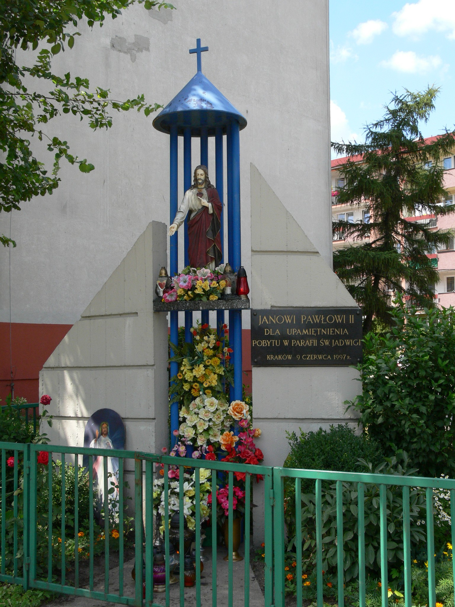 Krowodrza Górka - memorial in Kraków, Jan Paweł II, Poland